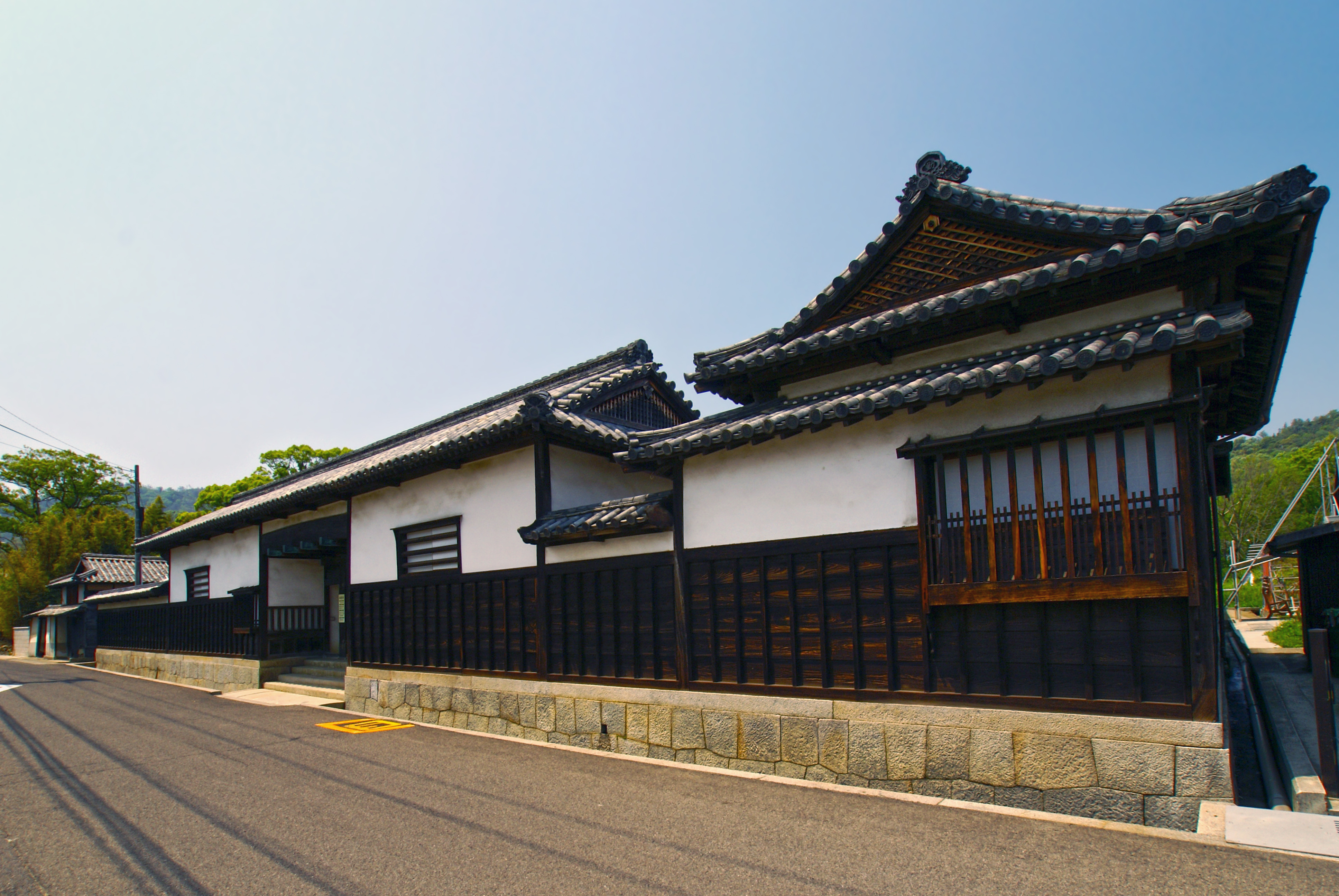 Shiwaku-kinbansho in Hon-jima of Shiwaku Islands, Marugame, Kagawa prefecture, Japan